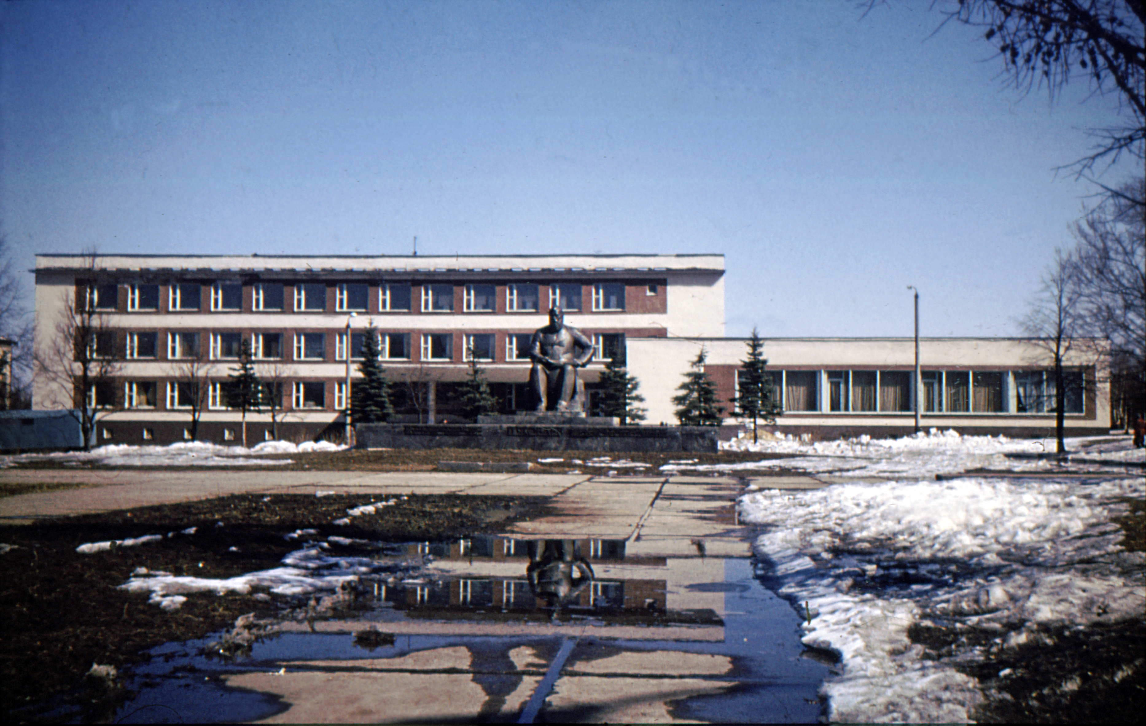 Chuvash Republic Library named M. Gorky, Cheboksary, 1987